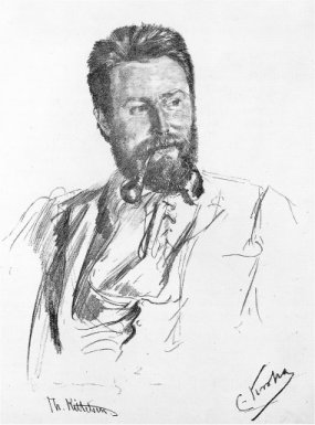 Portrait Theodor Kittelsen (1857-1914) drawn by Christian Krohg 1892